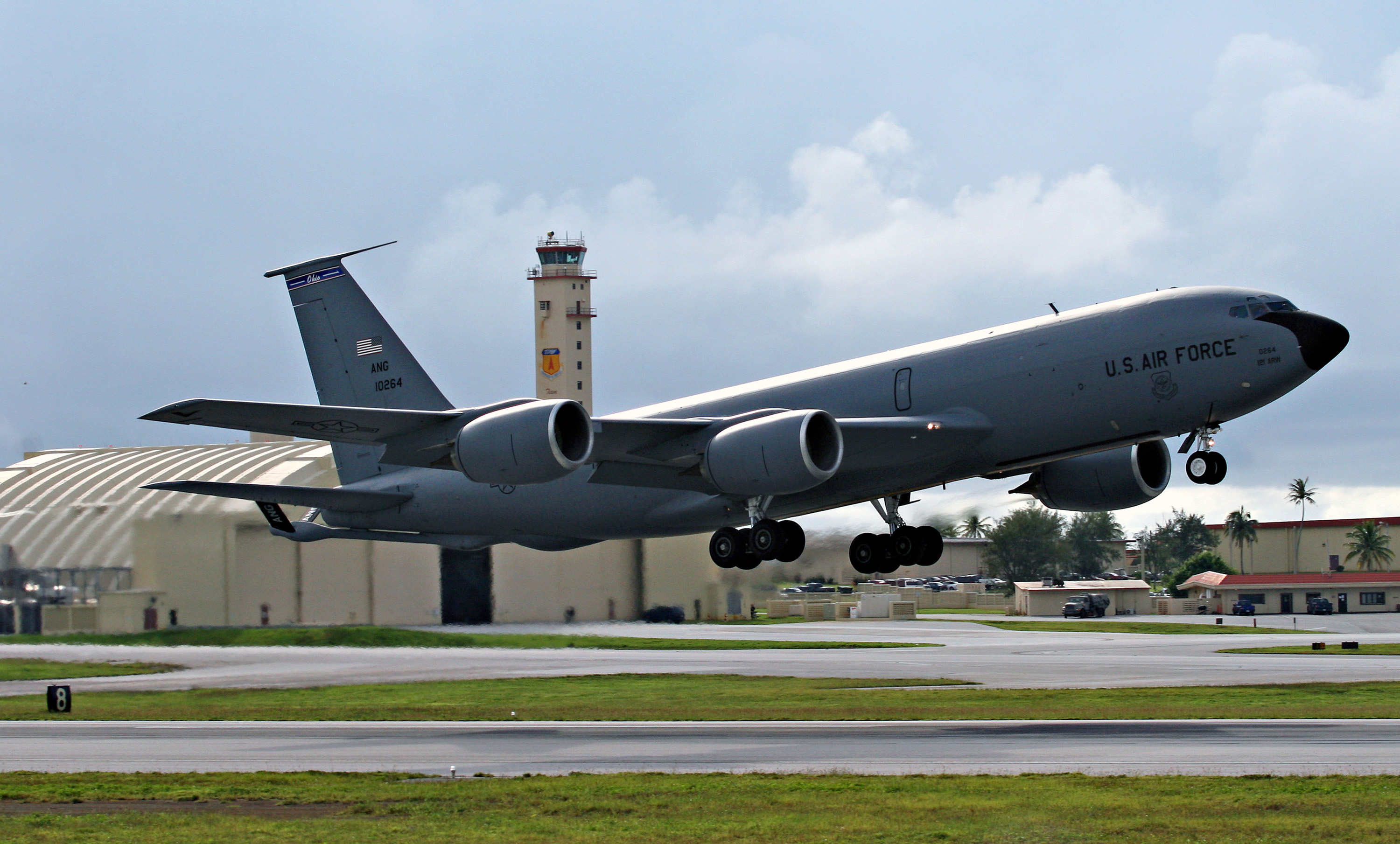 A U.S. Air Force Boeing KC-135R Stratotanker (s/n 61-0264), deployed from the 121st Air Refueling Wing, Ohio Air National Guard, takes off for an aerial refueling mission from Andersen Air Force Base, Guam (USA), on 4 October 2007.